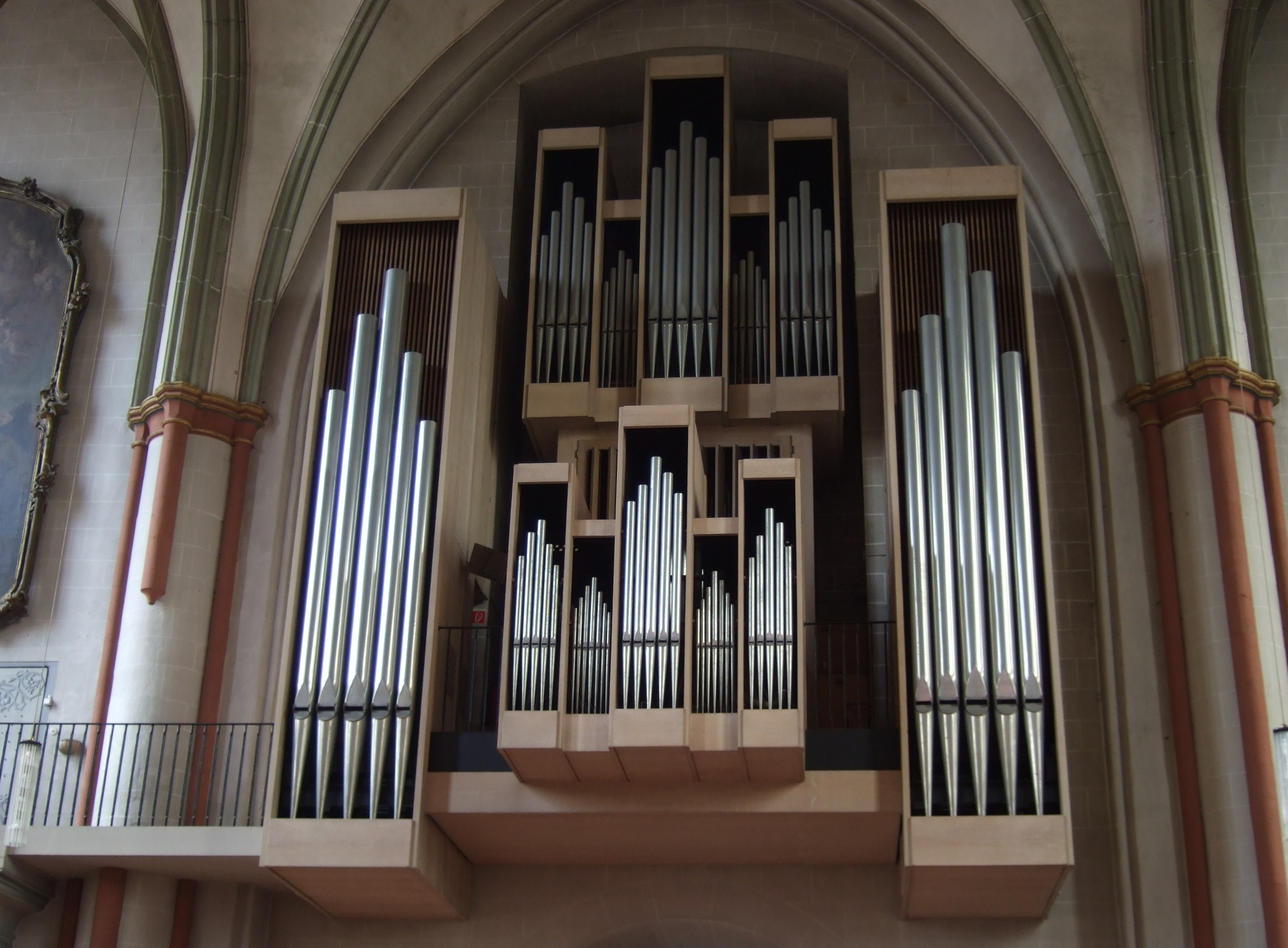 Pipe organ aof the Ueberwasser church of Muenster, Germany